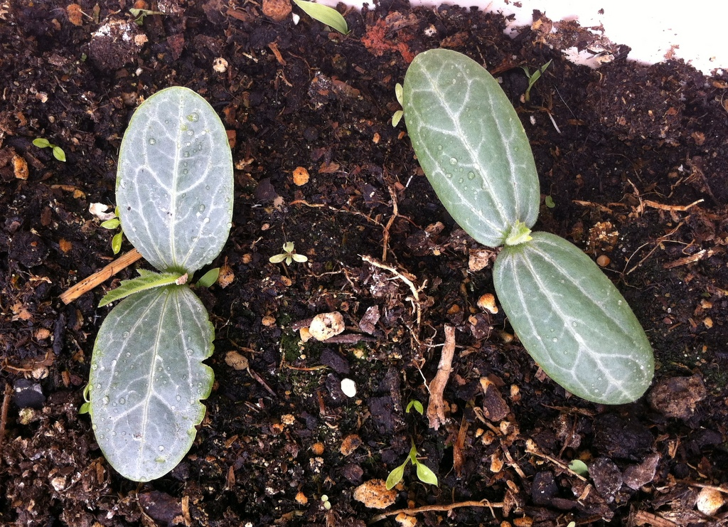 Luffa aegyptiaca seedlings